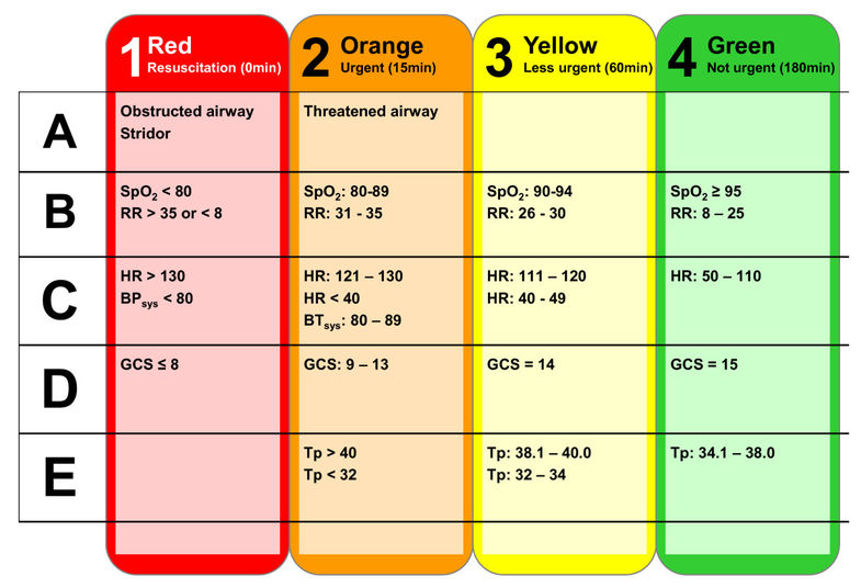 Figure 2 Vital signs defining the colour-coded triage, T vitals . RR: respiratory rate; SpO2: saturation of peripheral oxygen (pulse oxymetry); HR: heart rate; GCS: Glasgow Coma Score; Tp: temperature; ICU: Intensive Care Unit. Abnormal vital signs are strong predictors for intensive care unit admission and in-hospital mortality in adults triaged in the emergency department - a prospective cohort study Charlotte BarfodEmail author, Marlene Mauson Pankoke Lauritzen, Jakob Klim Danker, György Sölétormos, Jakob Lundager Forberg, Peter Anthony Berlac, Freddy Lippert, Lars Hyldborg Lundstrøm, Kristian Antonsen and Kai Henrik Wiborg Lange Scandinavian Journal of Trauma, Resuscitation and Emergency Medicine201220:28 Barfod et al; licensee BioMed Central Ltd. 2012